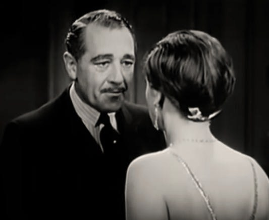 Crauford Kent (Lillian Rich back) in Grief Street (1931) - cropped screenshot